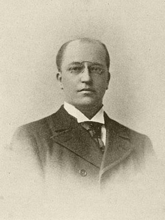 C.J. Wijnaendts Francken (1863-1944). Photo taken around 1900-1910? Photograph by unknown author; collection Veenhuijzen, Centraal Bureau voor Genealogie, Den Haag